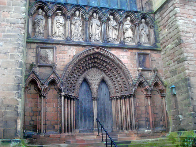 The South Door of Lichfield Cathedral Above the ornate doorway stand seven figures carved in Roman cement. Christ stands in the centre. On the right are Saint Chad, Saint James and John the Baptist. On the left are Saint Peter, Saint John and the Virgin Mary.